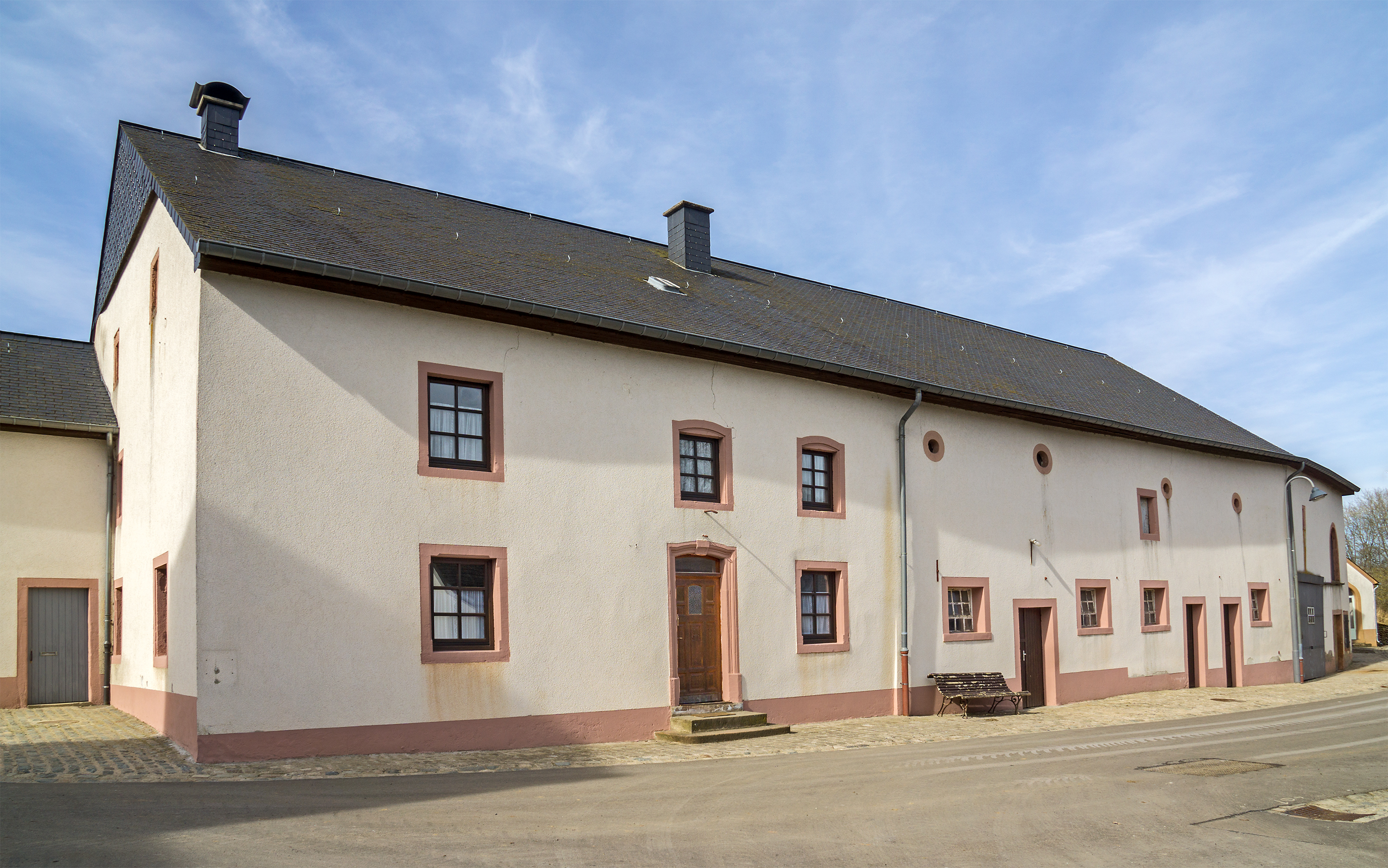 Farmhouse in Rindschleiden which has been used a few months later for the Thillenvogtei museum.